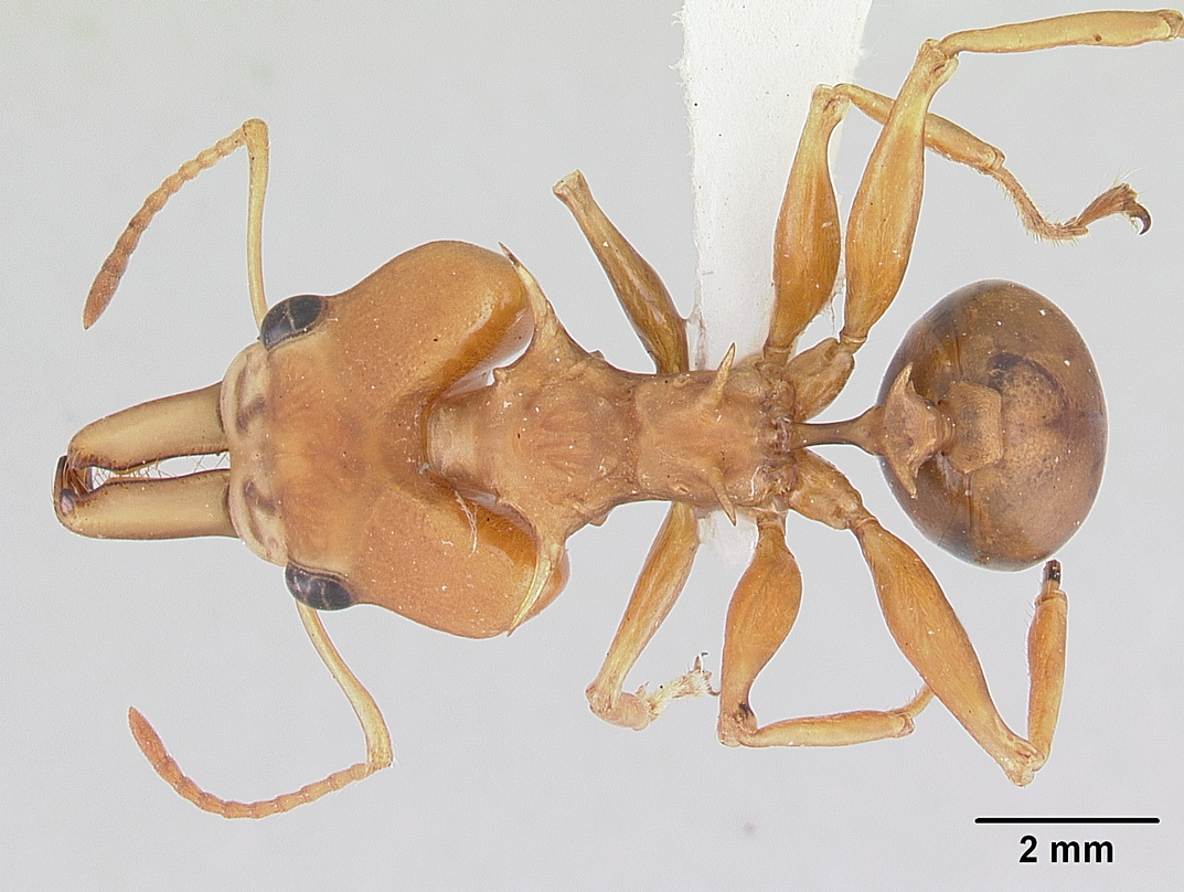 Dorsal view of ant Daceton armigerum specimen casent0178489.